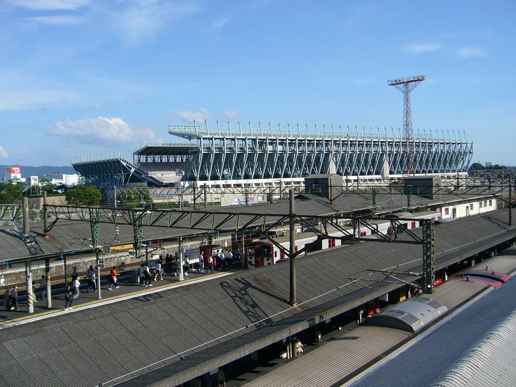 This photograph is a platform at Tosu Station.